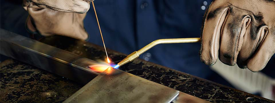 بریزکاری